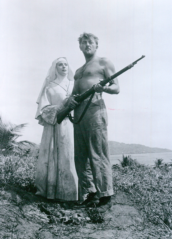 Photo of Robert Mitchum and Deborah Kerr from the 1957 film Heaven Knows, Mr. Allison.